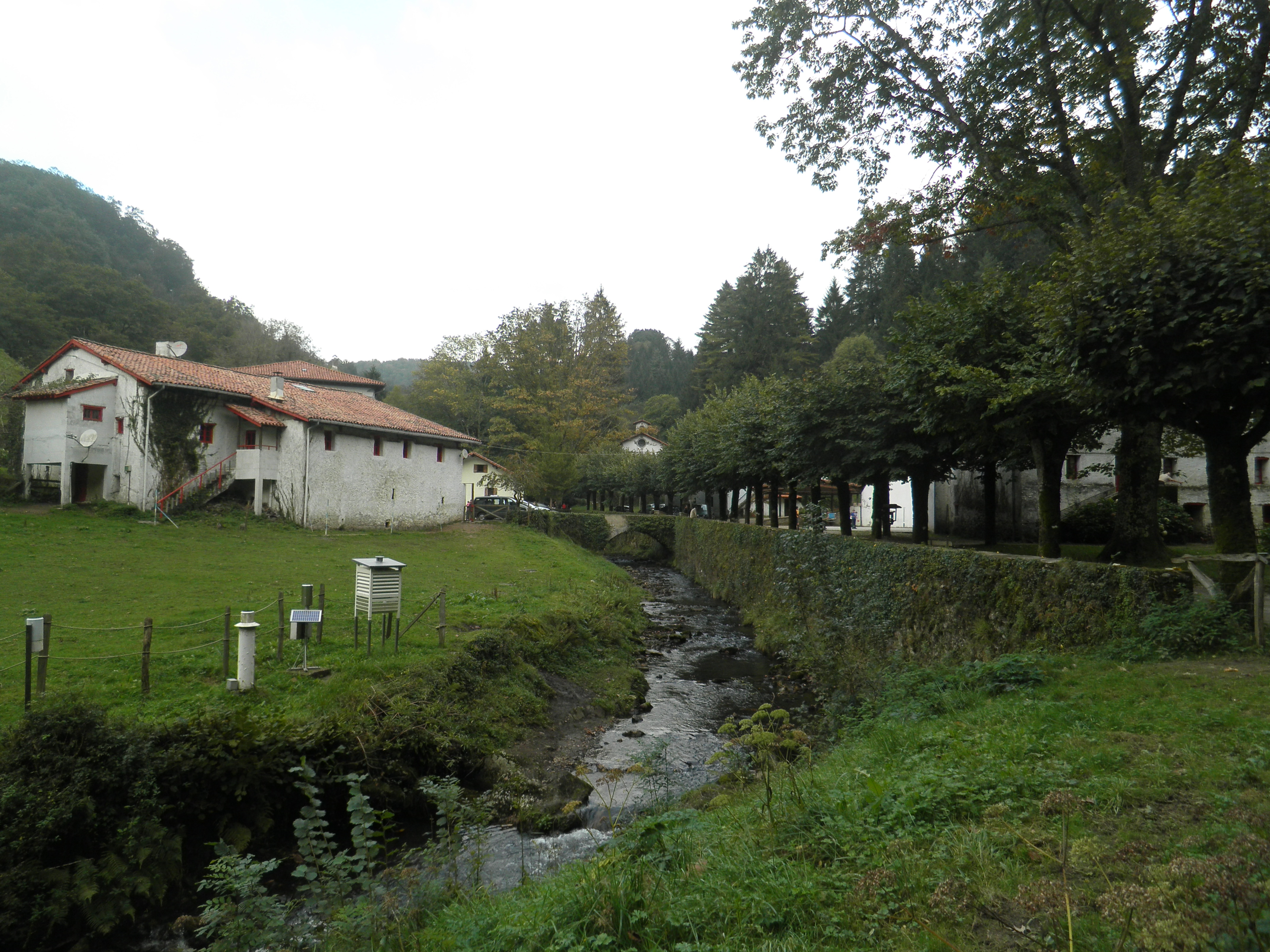 Artikutza, Goizueta.